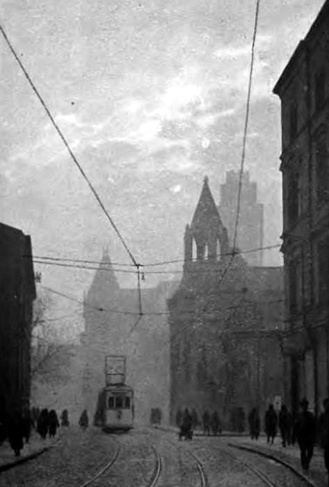 Klosterstraße in Gleiwitz with the All Saints Church in the background